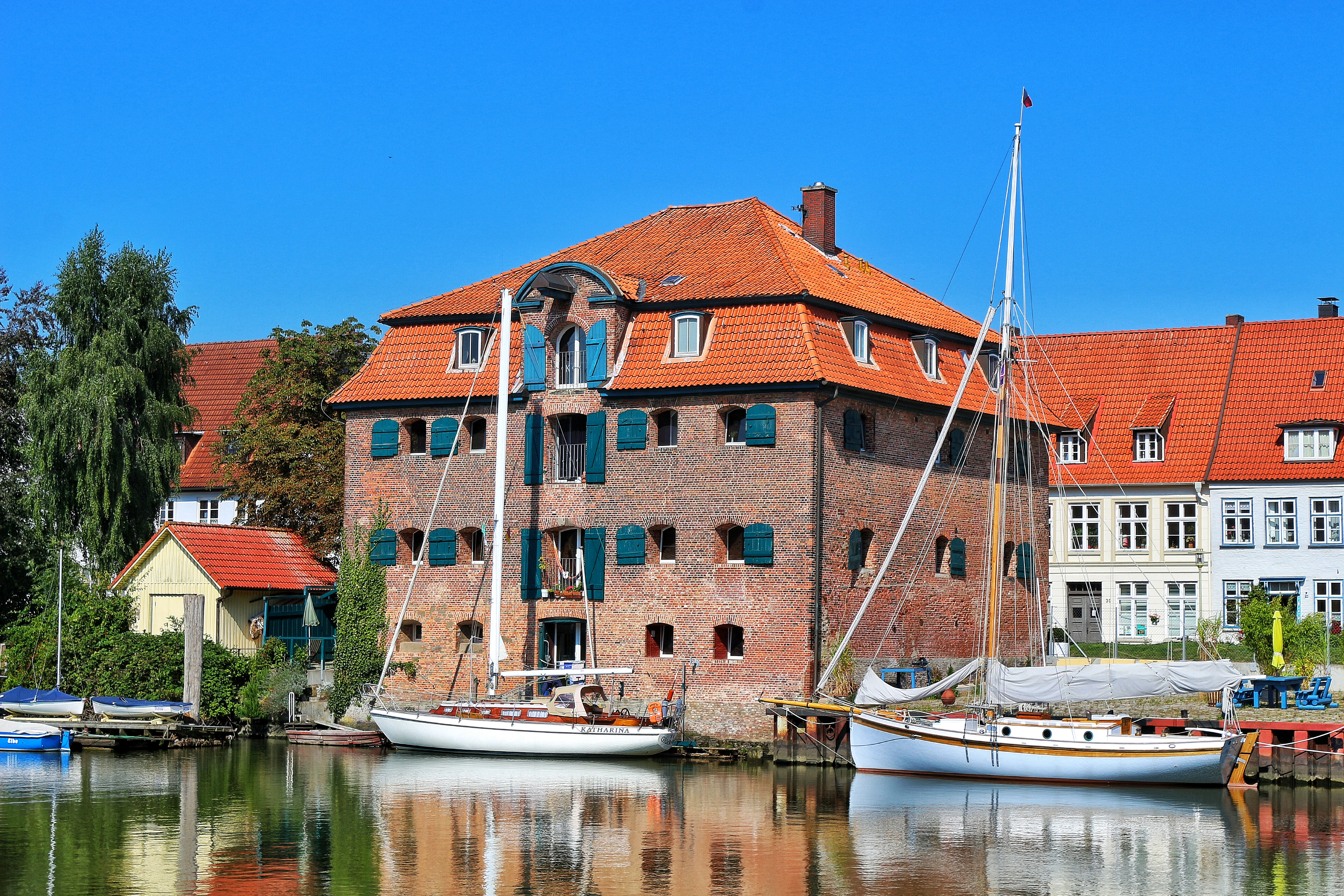 old memory / former salt storage at the harbour of Glückstadt, Schleswig-Holstein, Germany - built of bricks - special roof called mansard roof